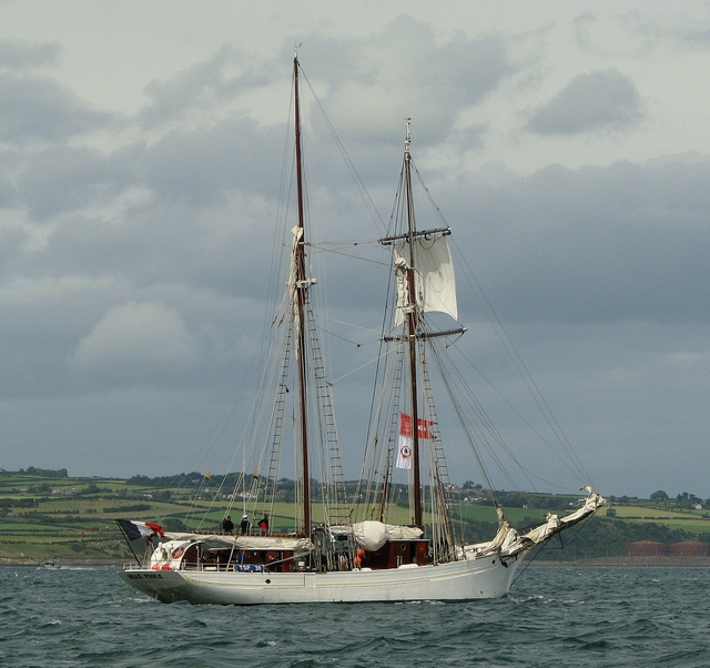 'Belle Poule', Tall Ships Belfast 2009 French naval training schooner the 'Belle Poule' taking part in the 'Parade of Sail' to mark the end of the Tall Ships event in Belfast. The 'Belle Poule' was launched on the 8th February 1932 and is a replica of a type of fishing vessel which was used until 1935 off Iceland. She has a sister ship, the Étoile. The schooner saw action in World War Two with the Free French Forces.